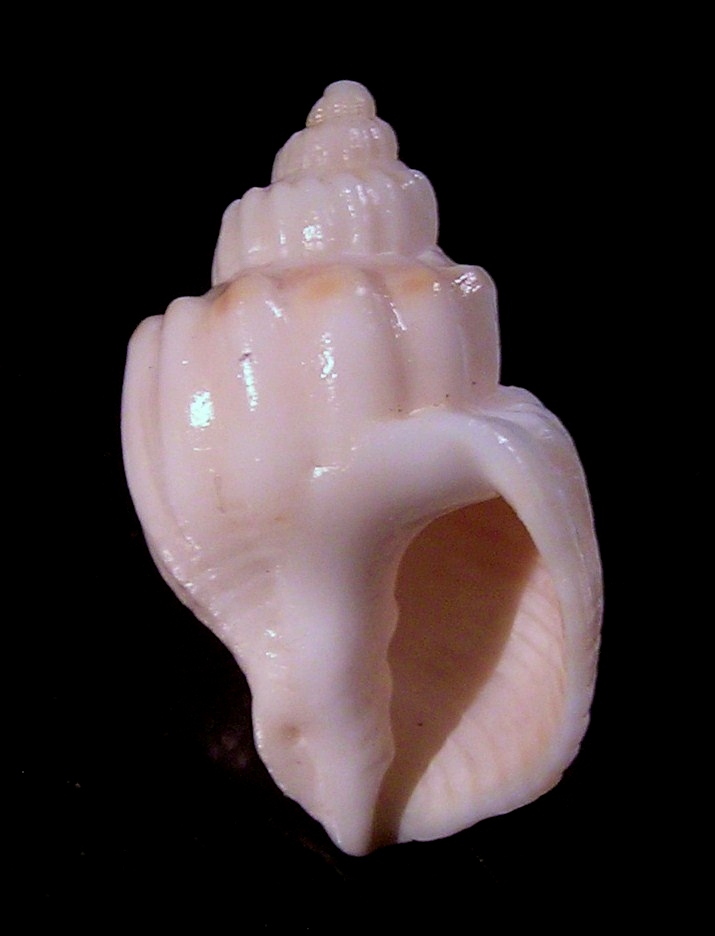 Sydaphera undulata (G.B. Sowerby II, 1849), a nutmeg snail in the family Cancellariidae